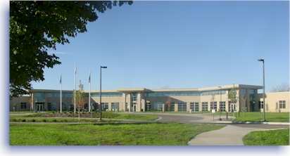 This photo was taken by me personally. I am the webmaster at Blackhawk Technical College